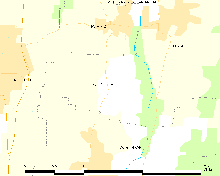 Map of French municipality